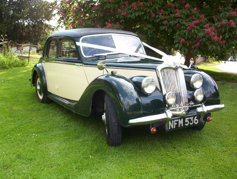 Riley RMA 1951